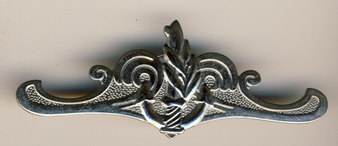 Israeli naval academy